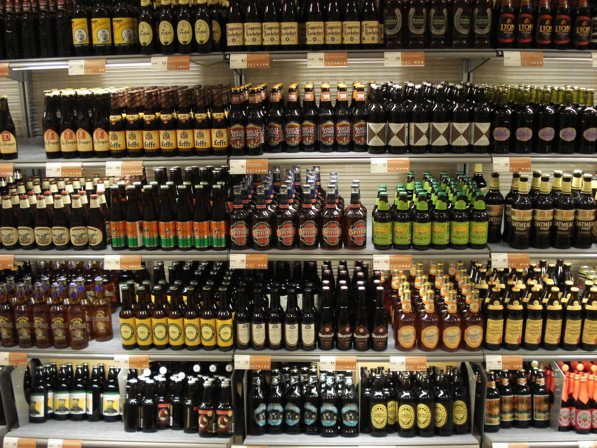 All the liquor stores in Sweden are state-run. As Daniel explained, that actually translates to a very large selection because they don't just stock the most popular items. You can buy a case of beer, but it's sold by the bottle.